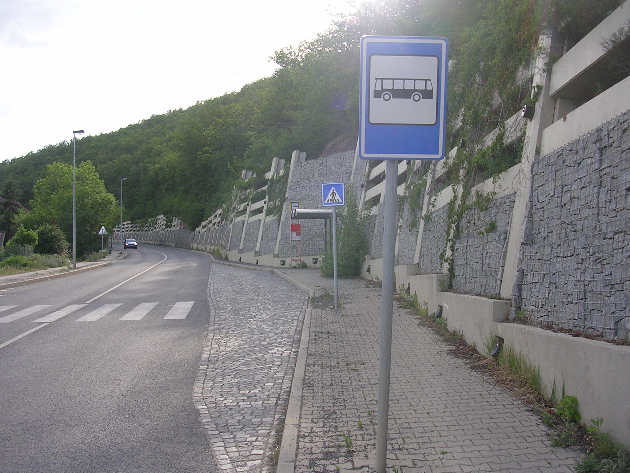 Radotín, Prague, the Czech Republic.